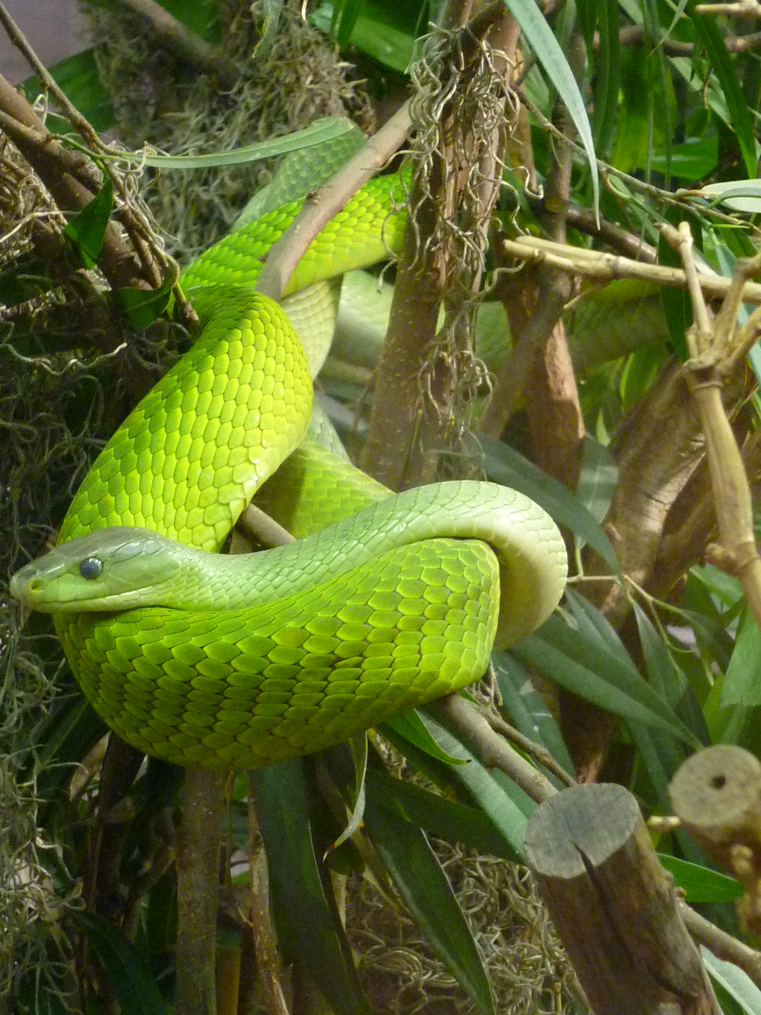 Green Mamba (Dendroaspis viridis), photo taken at the TerraZoo Rheinberg, Germany